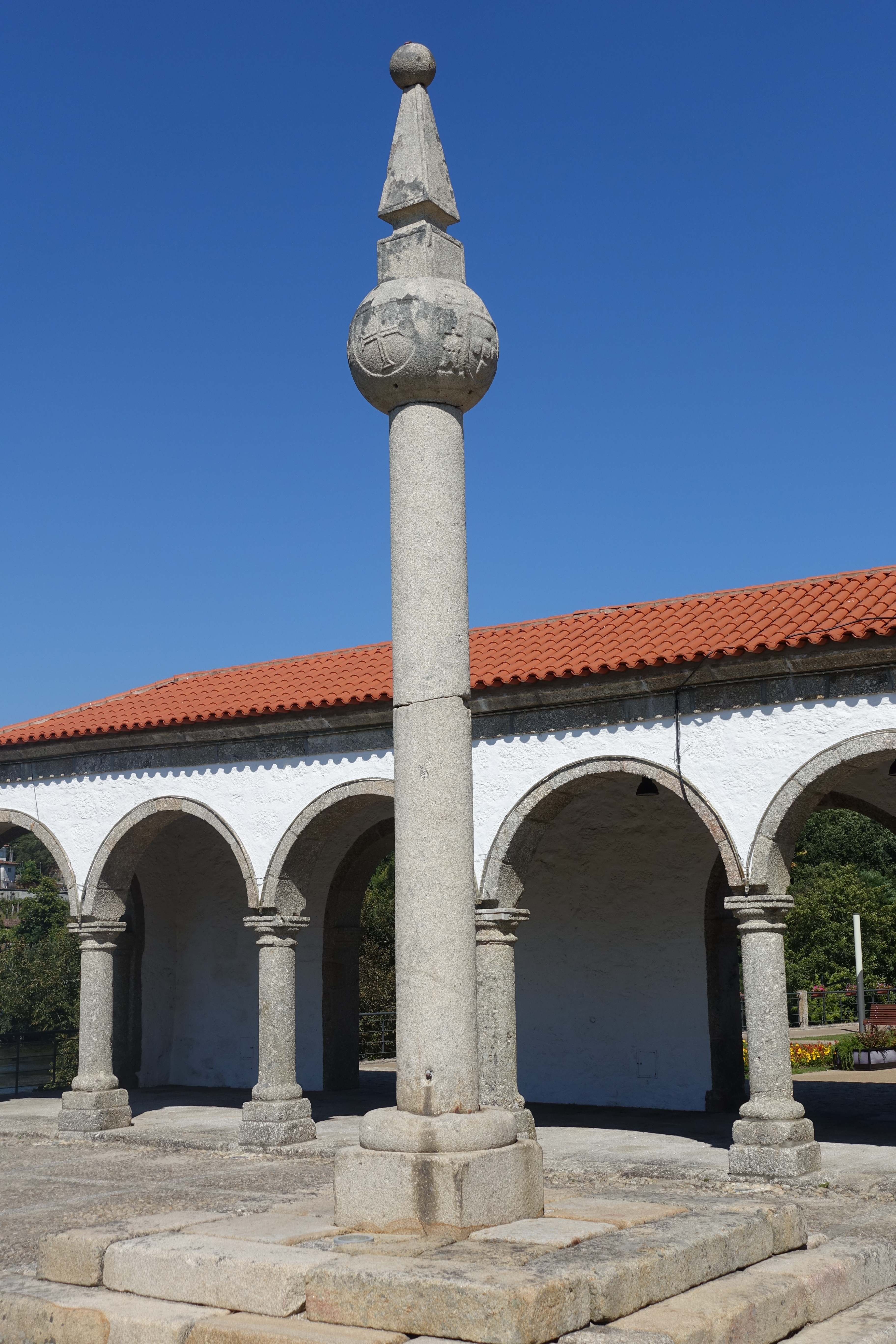 Pelourinho de Ponte da Barca, Portugal.